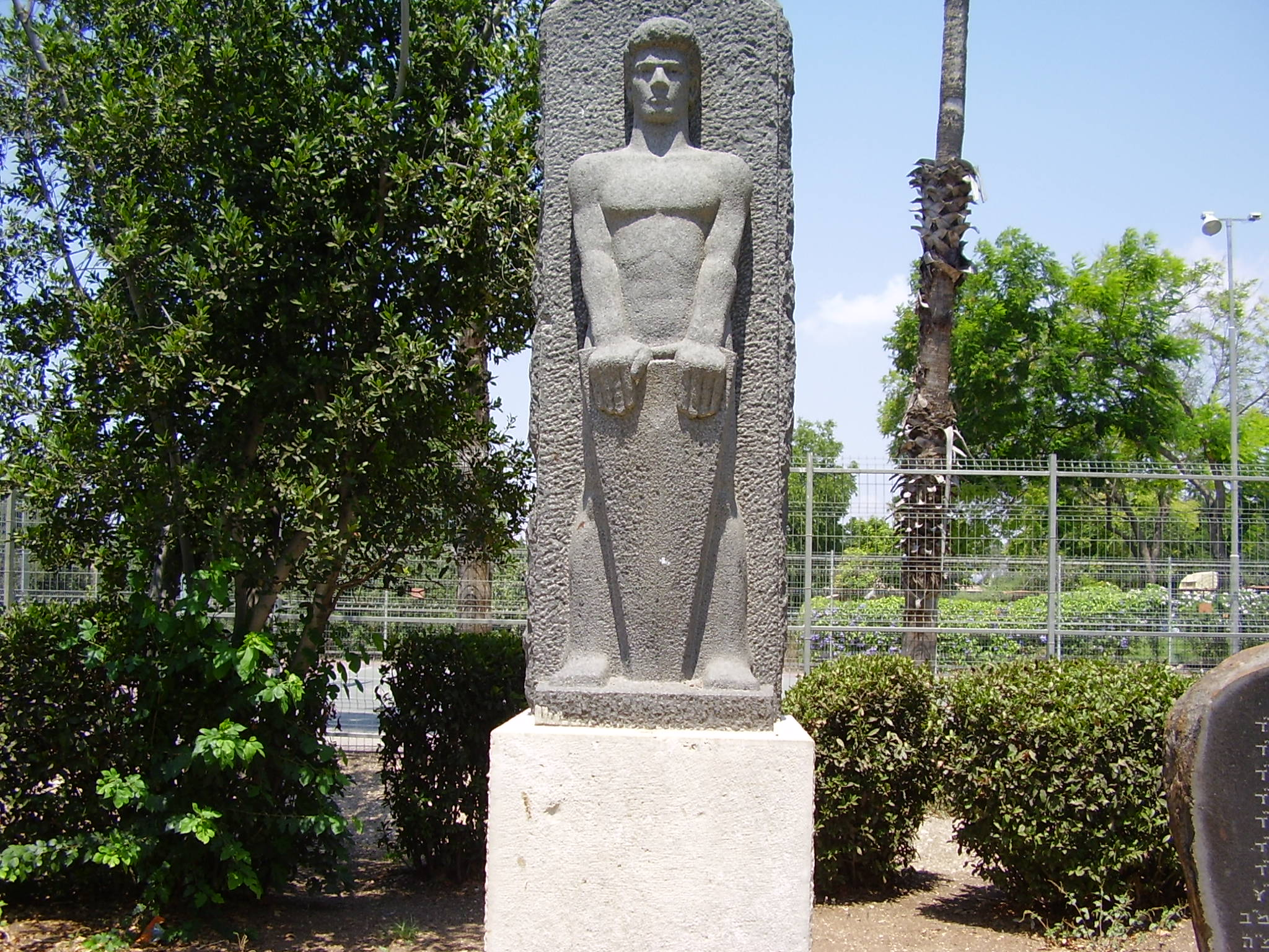 War memorial in Nahalal